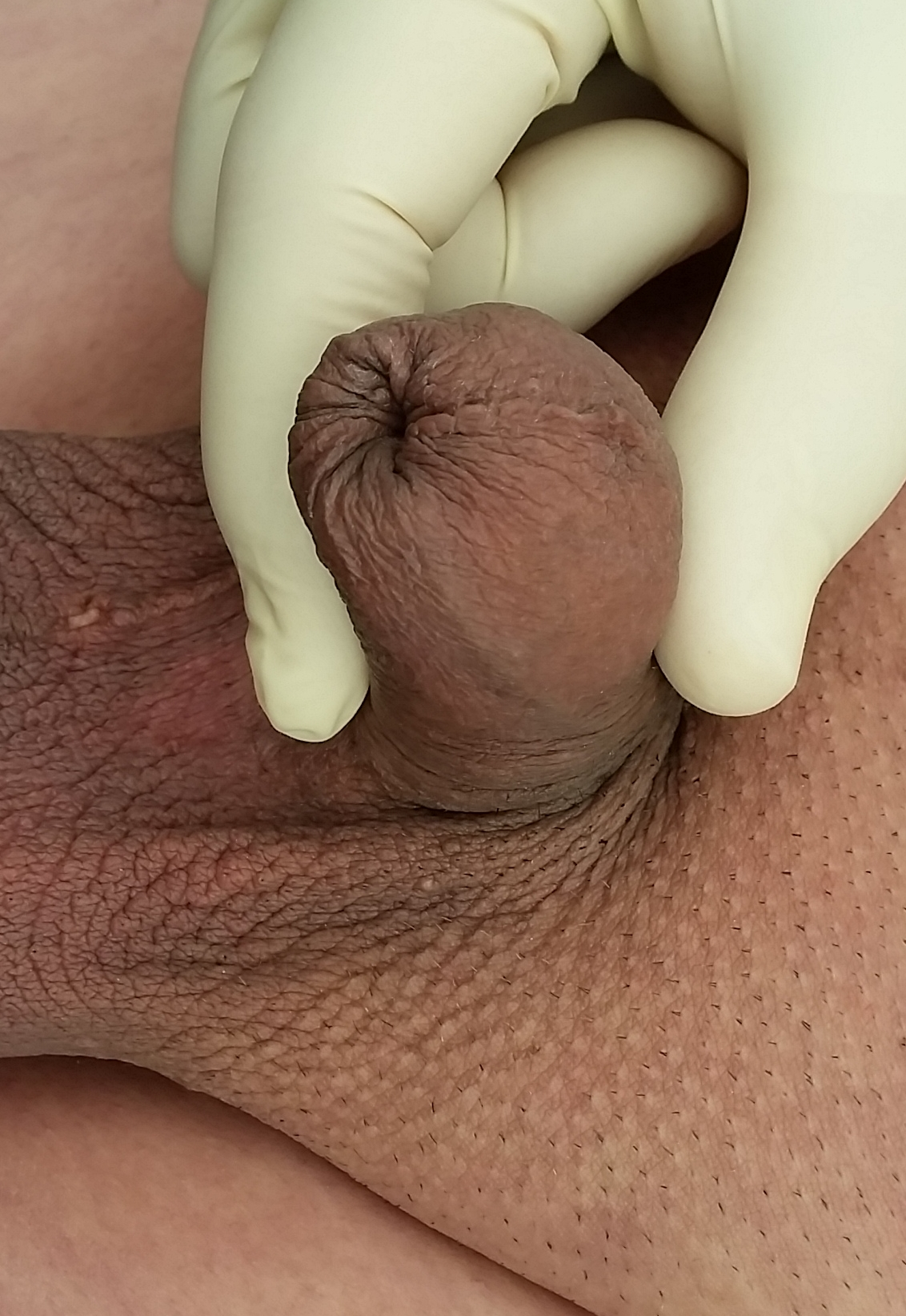 penile stump after partial penectomy